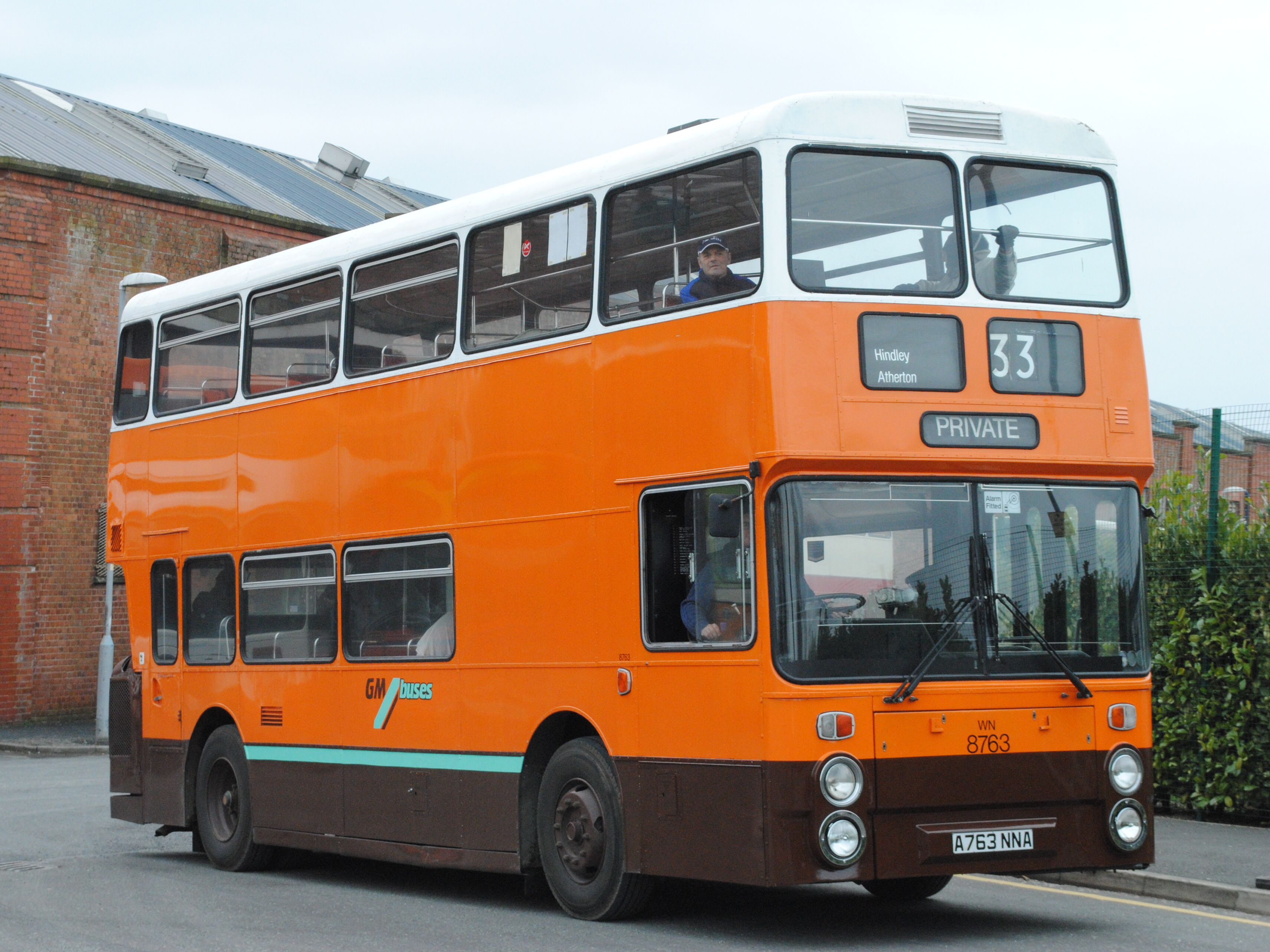 Leyland Atlantean Northern Counties. seen here at Spring Transport Festival 2013 in Cheetham Hill